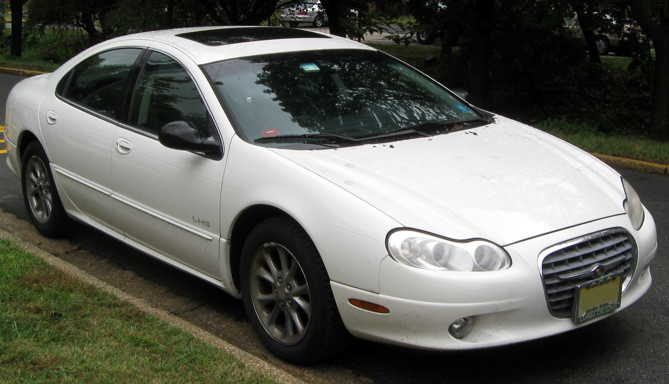 1999-2001 Chrysler LHS photographed in College Park, Maryland, USA.